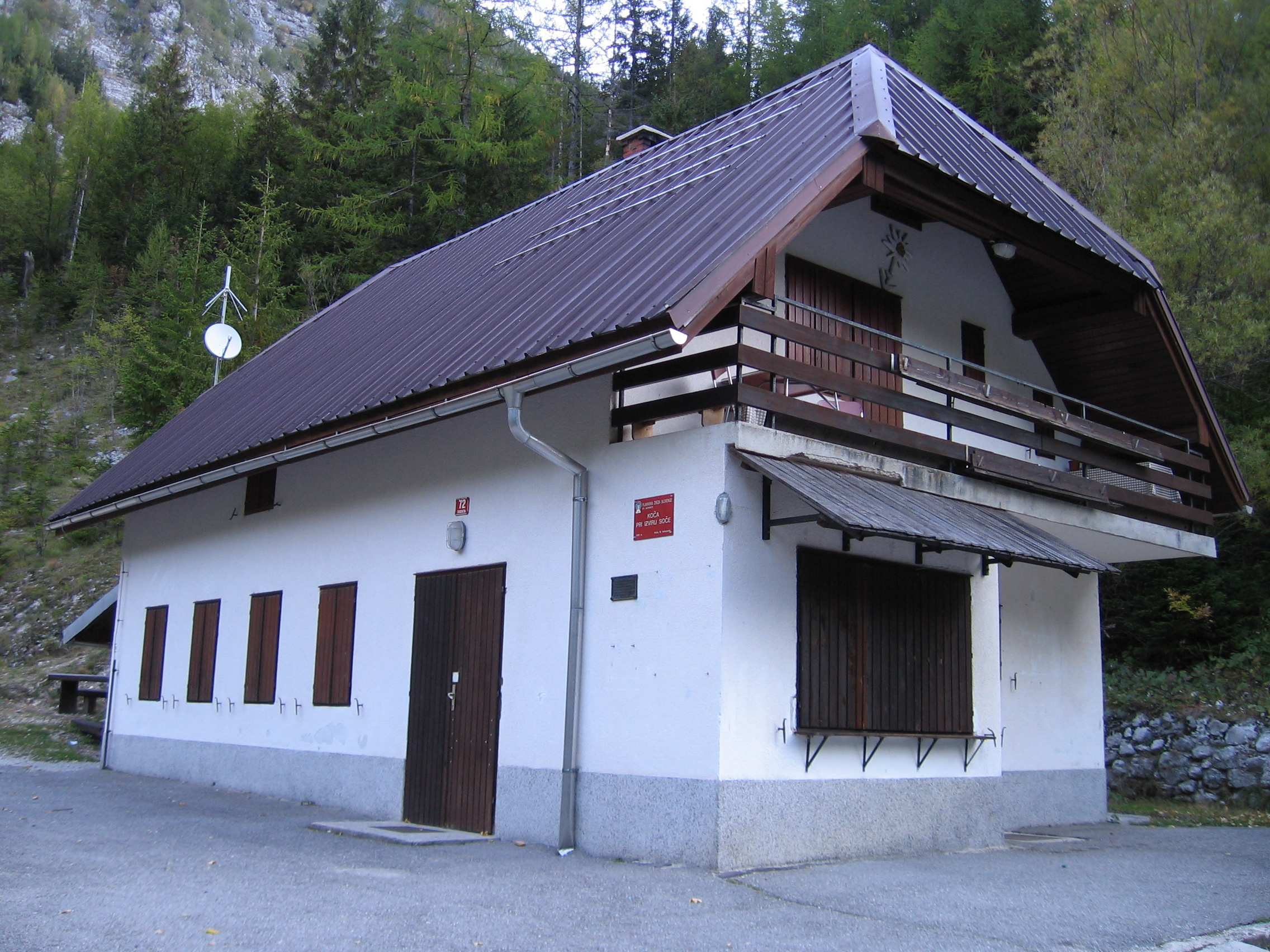 Hut near the source of Soča / Isonzo river, Julian Alps